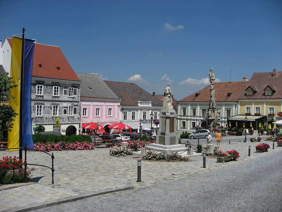 City square of Weitra in Lower Austria Boarisch: Da Schdådblåz fu Weitra, Nidaöstaraich